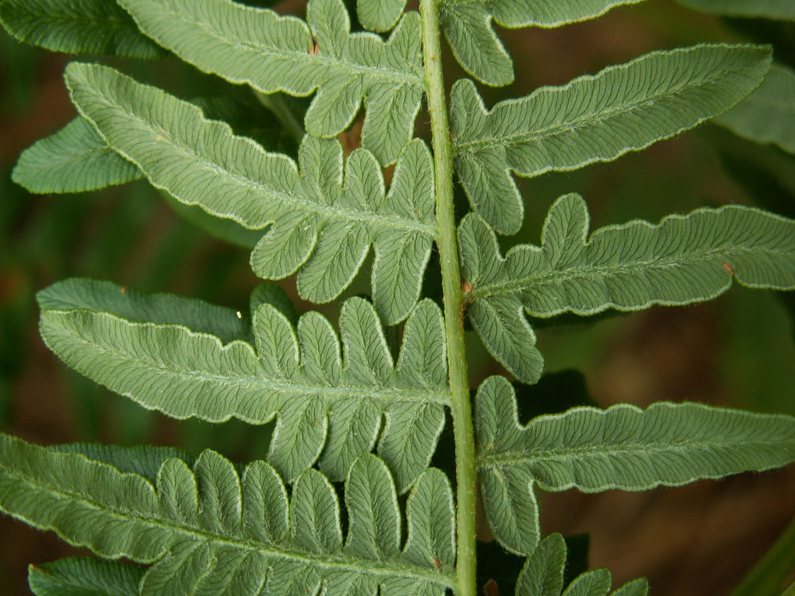 Pteridium aquilinum leaf. Goleniow, NW Poland